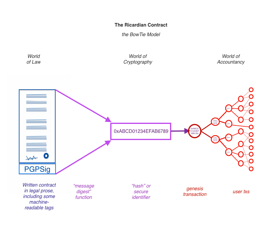 Diagram showing the structural relationships between a Ricardian contract, a 'hash' generated from the computable elements of said contract and a chain of transactions generated from the 'hash'.